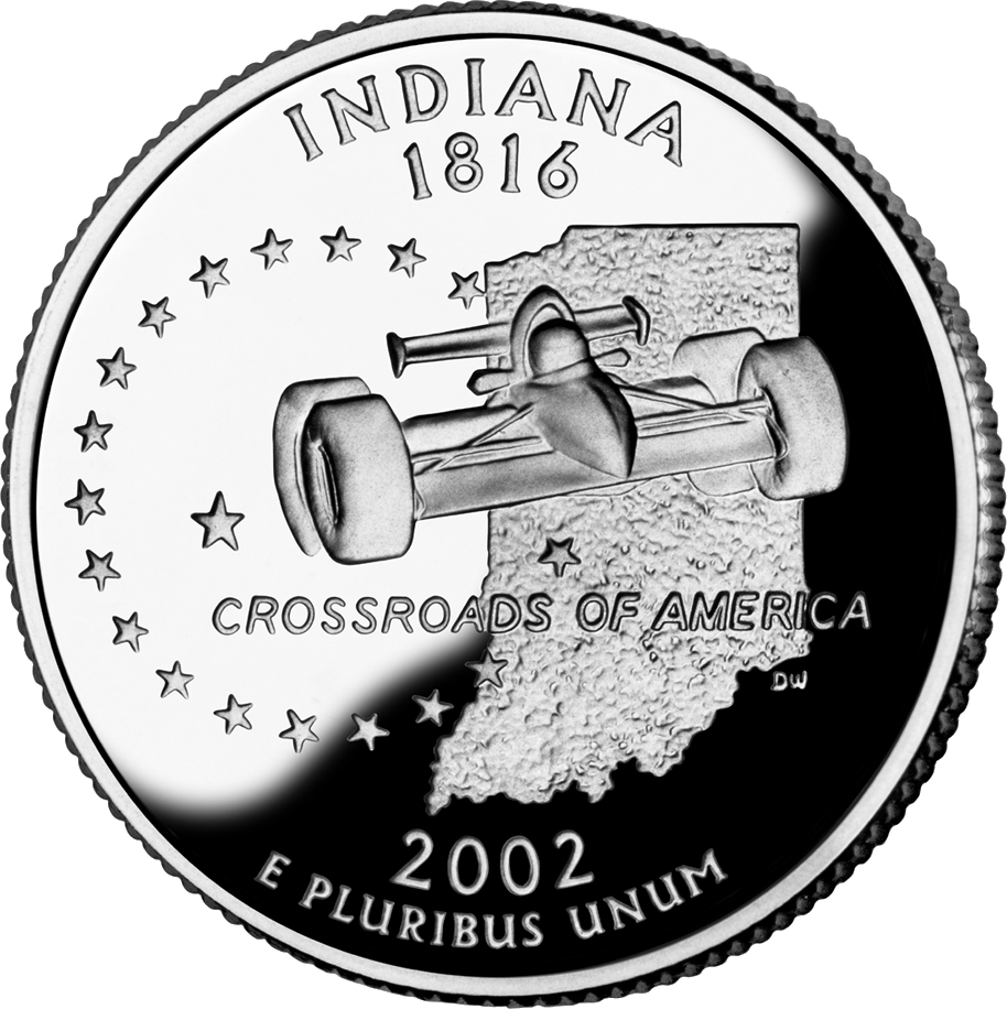 Removed background, cropped, and converted to PNG with Macromedia Fireworks. This image depicts a unit of currency issued by the United States of America. If Fraudulent use of this image is punishable under applicable counterfeiting laws. As listed by the United States Secret Service at money illustrations, the Counterfeit Detection Act of 1992, Public Law 102-550, in Section 411 of Title 31 of the Code of Federal Regulations (31 CFR 411), permits color illustrations of U.S. currency provided:1. The illustration is of a size less than three-fourths or more than one and one-half, in linear dimension, of each part of the item illustrated;2. The illustration is one-sided; and3. All negatives, plates, positives, digitized storage medium, graphic files, magnetic medium, optical storage devices, and any other thing used in the making of the illustration that contain an image of the illustration or any part thereof are destroyed and/or deleted or erased after their final use. Certain coins contain copyrights licensed to the U.S. Mint and owned by third parties or assigned to and owned by the U.S. Mint [1]. For the United States Mint circulating coin design use policy, see [2]; for the policy on the 50 State Quarters, see [3]. Also: COM:ART #Photograph of an old coin found on the Internet